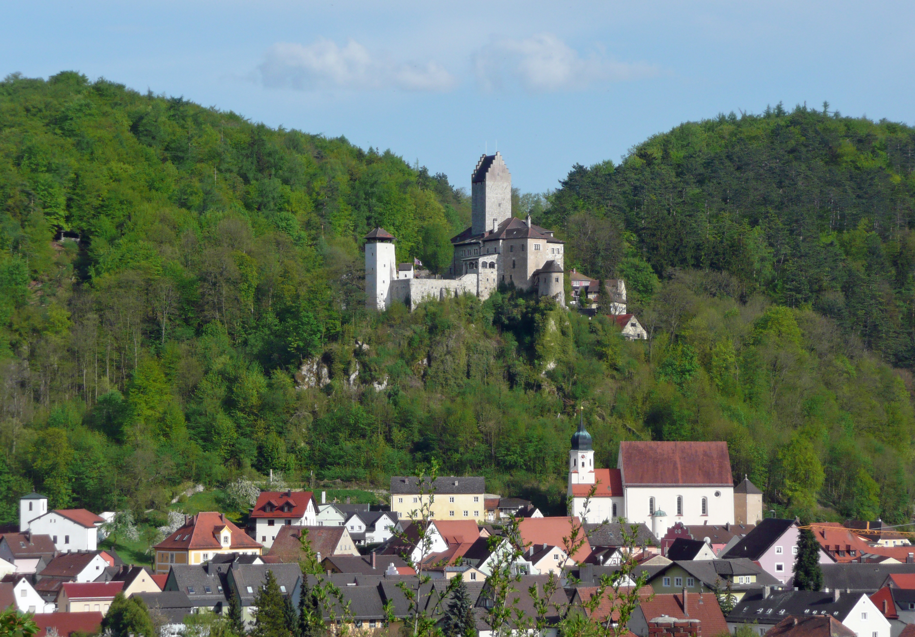 Castle and town with churches in Kipfenberg seen from NW. This is a photograph of an architectural monument. This is a photograph of an architectural monument.